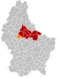 Own edit of Kanton DiekirchLocatie.png